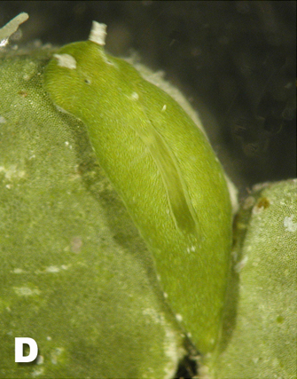 Photo of Elysia pusilla, synonym: Elysiella pusilla Bergh, 1872 (Sacoglossa), from the Indo Pacific, feeding on the green alga Halimeda; due to incorporation of chloroplasts, Elysiella has the same colour as the algae.